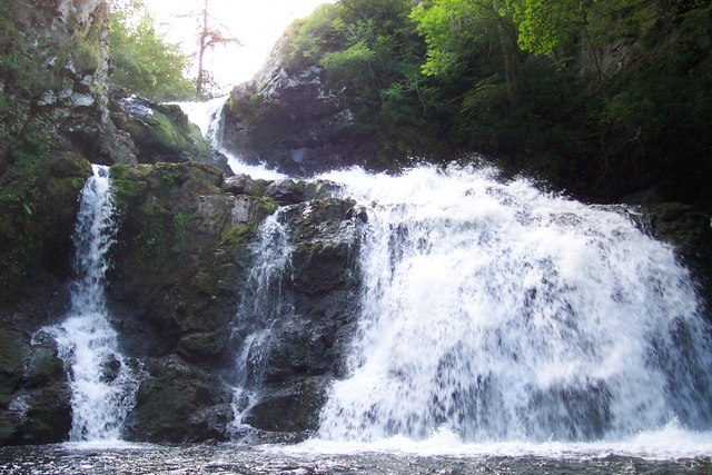 Reekie Linn falls, near Bridge of Craigisla, Angus